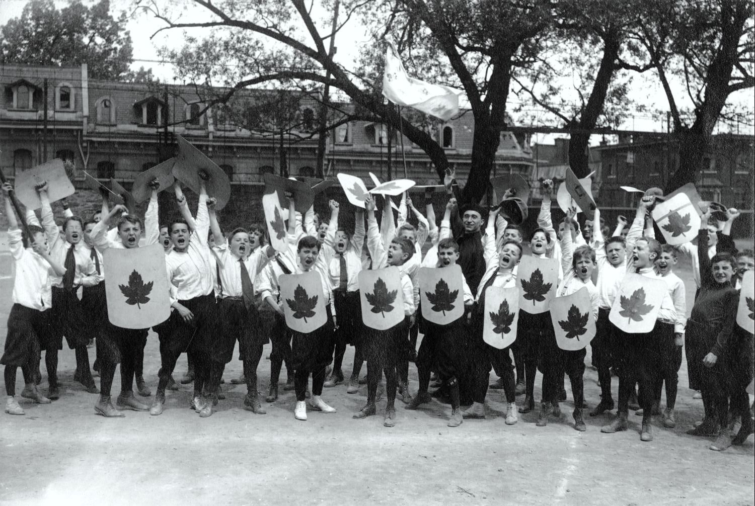 Students in the courtyard at Collège Sainte-Marie in Montreal, Canada, holding shields decorated with maple leaves.